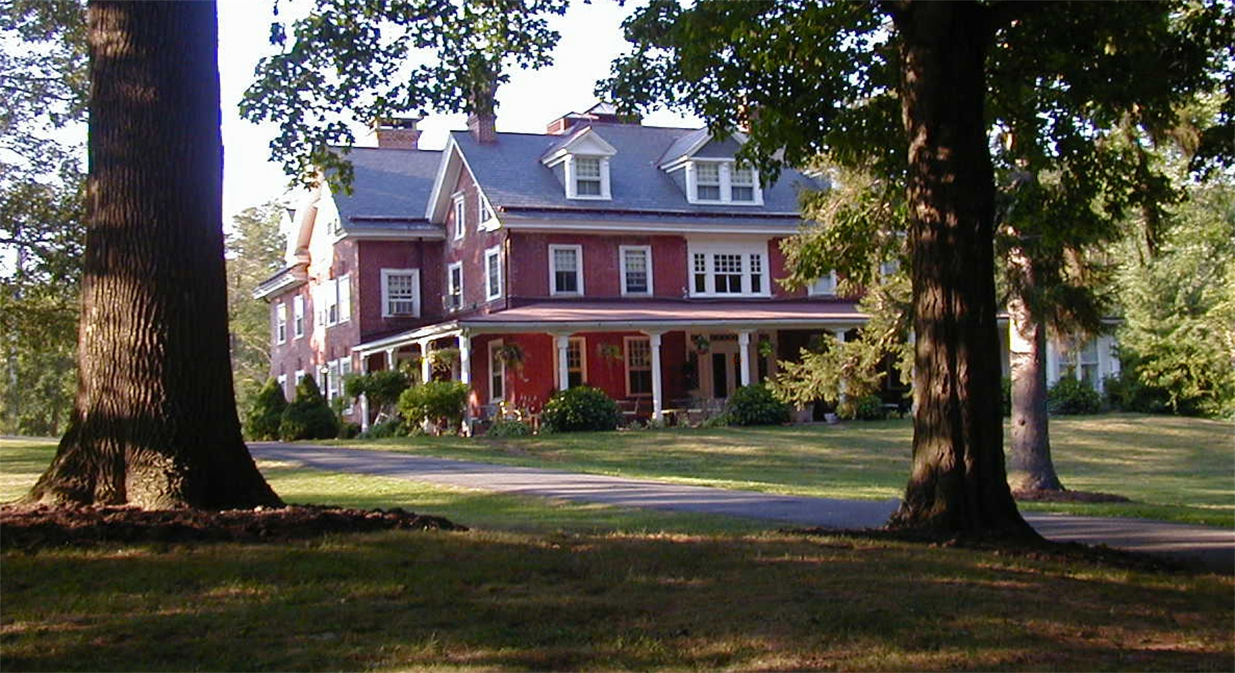 Mansion House at Cameron Estate from the approach leading from the main gate